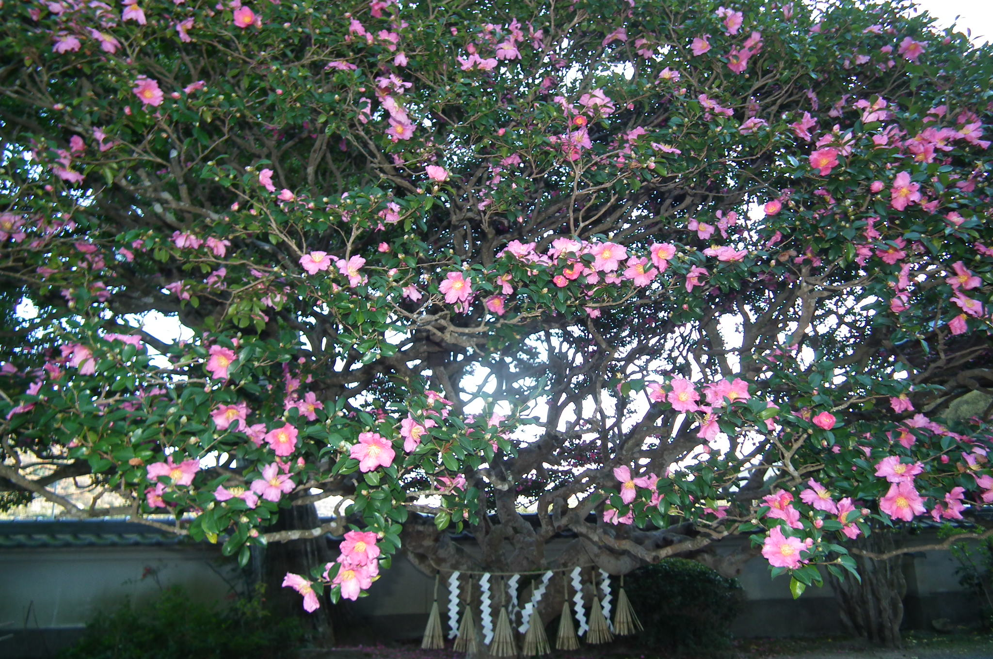 兵庫県篠山市今田町今田新田82 西方寺サザンカ